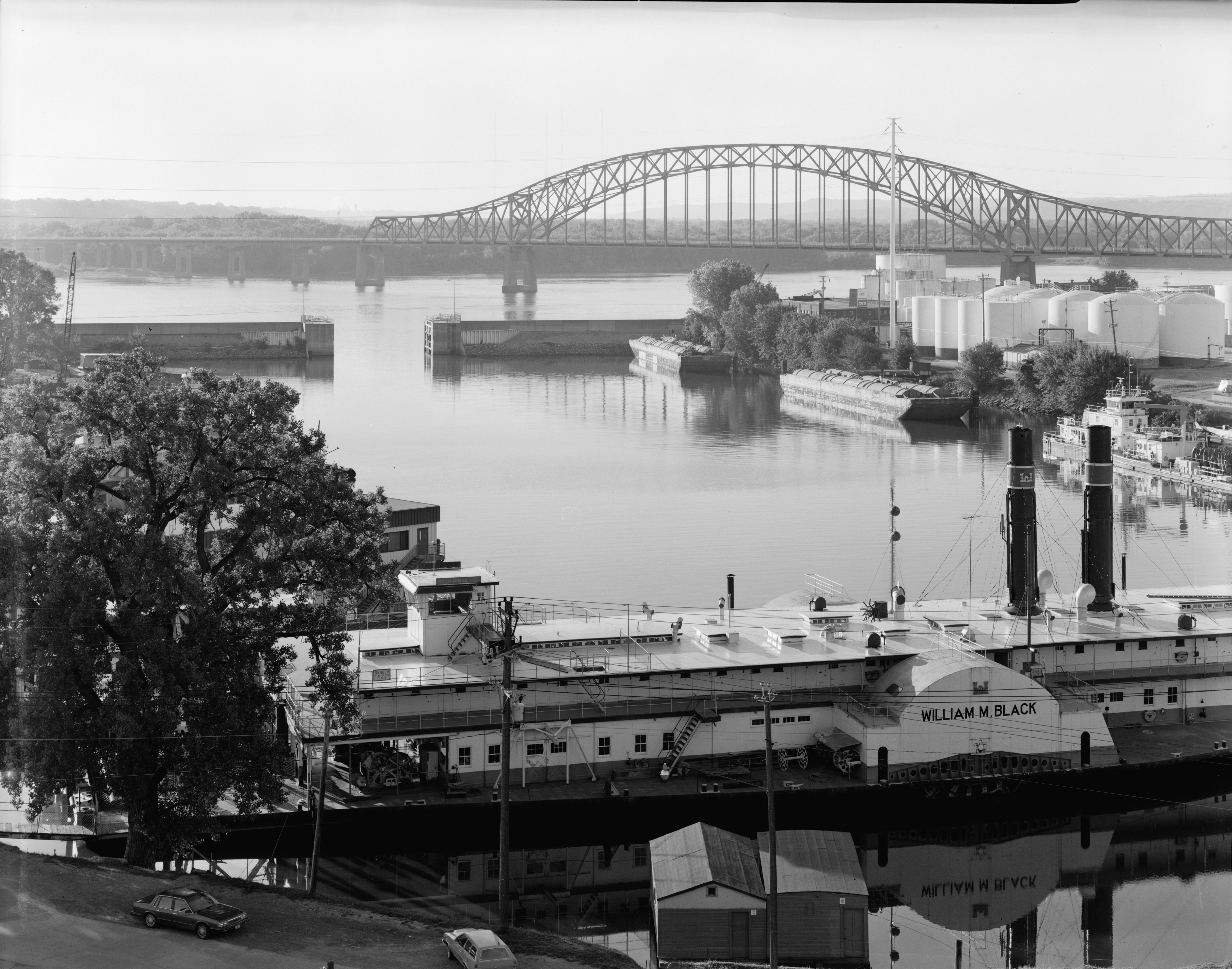 A view of the Julien Dubuque Bridge — in Dubuque, Iowa. The William M. Black (dredge), a National Historic Landmark, is in the foreground. Image courtesy of federal HABS—Historic American Buildings Survey in Iowa project (c. 1986). TITLE: Commercial & Industrial Buildings, Dubuque Ice Harbor, Dubuque, Dubuque County, IA CALL NUMBER: HABS IOWA,31-DUBU,13-AQ-2 REPRODUCTION NUMBER: [See Call Number] MEDIUM: Photo(s): 10 (4 x 5 in.) Data Page(s): 2 plus cover page DATE: Documentation compiled after 1933. CREATOR: Historic American Buildings Survey, creator NOTE: Survey number HABS IA-160-AQ-2 Building/structure dates: 1882 SUBJECTS: IOWA--Dubuque County--Dubuque OTHER TITLE: Dubuque Ice Harbor COLLECTION: Historic American Buildings Survey (Library of Congress) REPOSITORY: Library of Congress, Prints and Photograph Division, Washington, D.C. 20540 USA DIGID: [1] CONTENTS: Photograph caption(s): 1. OVERALL VIEW OF HARBOR. VIEW TO WEST. 2. OVERALL VIEW OF HARBOR, WITH JULIEN DUBUQUE BRIDGE IN BACKGROUND. VIEW TO SOUTHWEST. 3. OVERALL VIEW OF HARBOR. VIEW TO NORTHWEST. 4. BOATS DOCKED AT HARBOR. VIEW TO SOUTH. 5. BOATS DOCKED AT HARBOR. VIEW TO SOUTHEAST. 6. OVERALL VIEW OF HARBOR, WITH JULIEN DUBUQUE BRIDGE IN BACKGROUND. VIEW TO SOUTHWEST. 7. BOATS DOCKED AT HARBOR. VIEW TO SOUTHEAST. 8. BOATS DOCKED AT HARBOR. VIEW TO EAST. 9. LEVEE BETWEEN HARBOR AND MISSISSIPPI RIVER. VIEW TO SOUTH. 10. LEVEE BETWEEN HARBOR AND MISSISSIPPI RIVER. VIEW TO SOUTHEAST. CARD #: IA0320 Category:Bridges in the United States Category:Images of buildings and structures Category:Images of Iowa